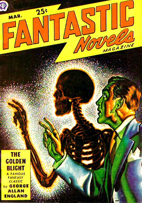 Cover of the March 1949 issue of Fantastic Novels magazine